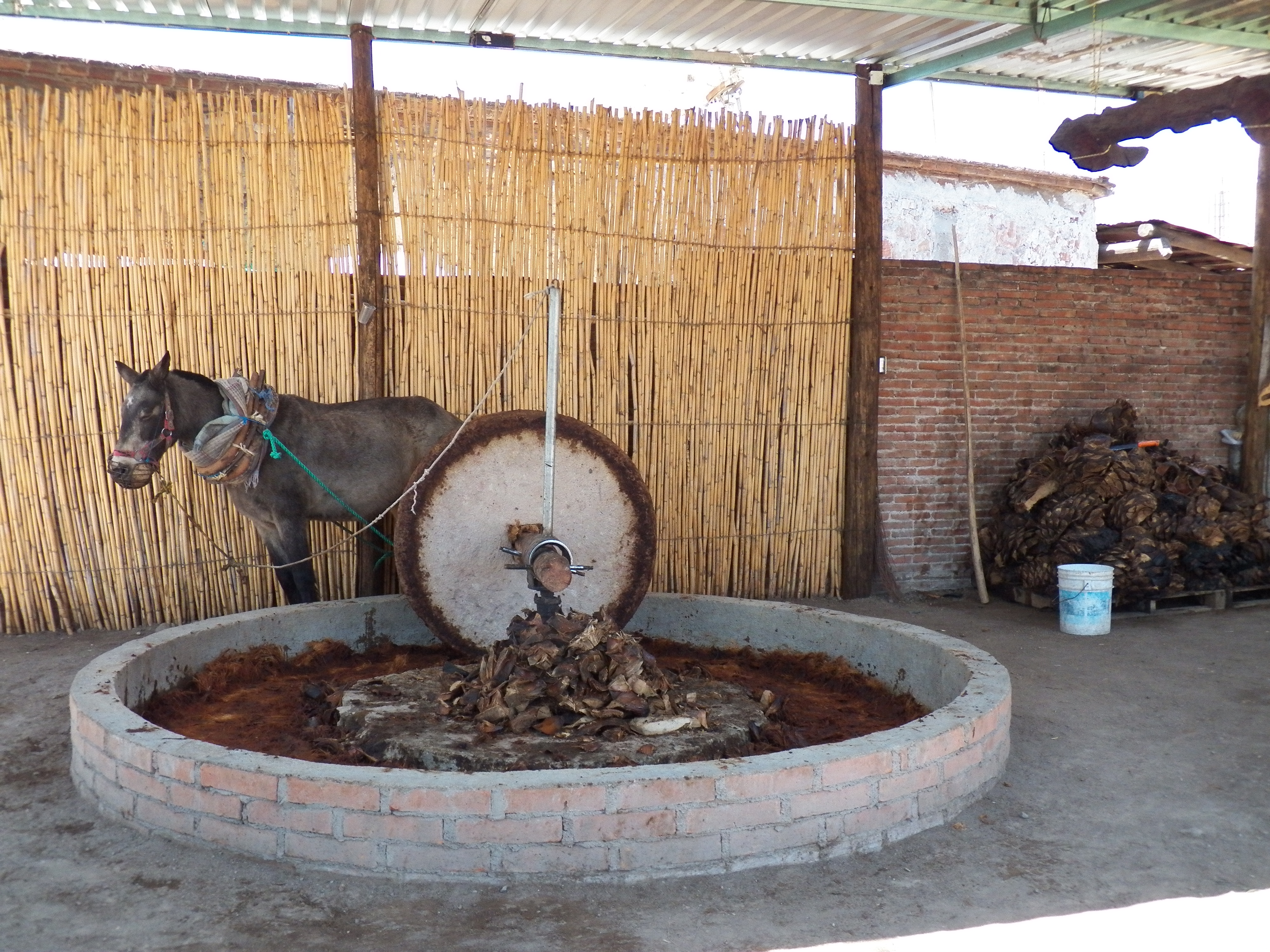 Mezcal grinding, Mitla Oaxaca, Mexico